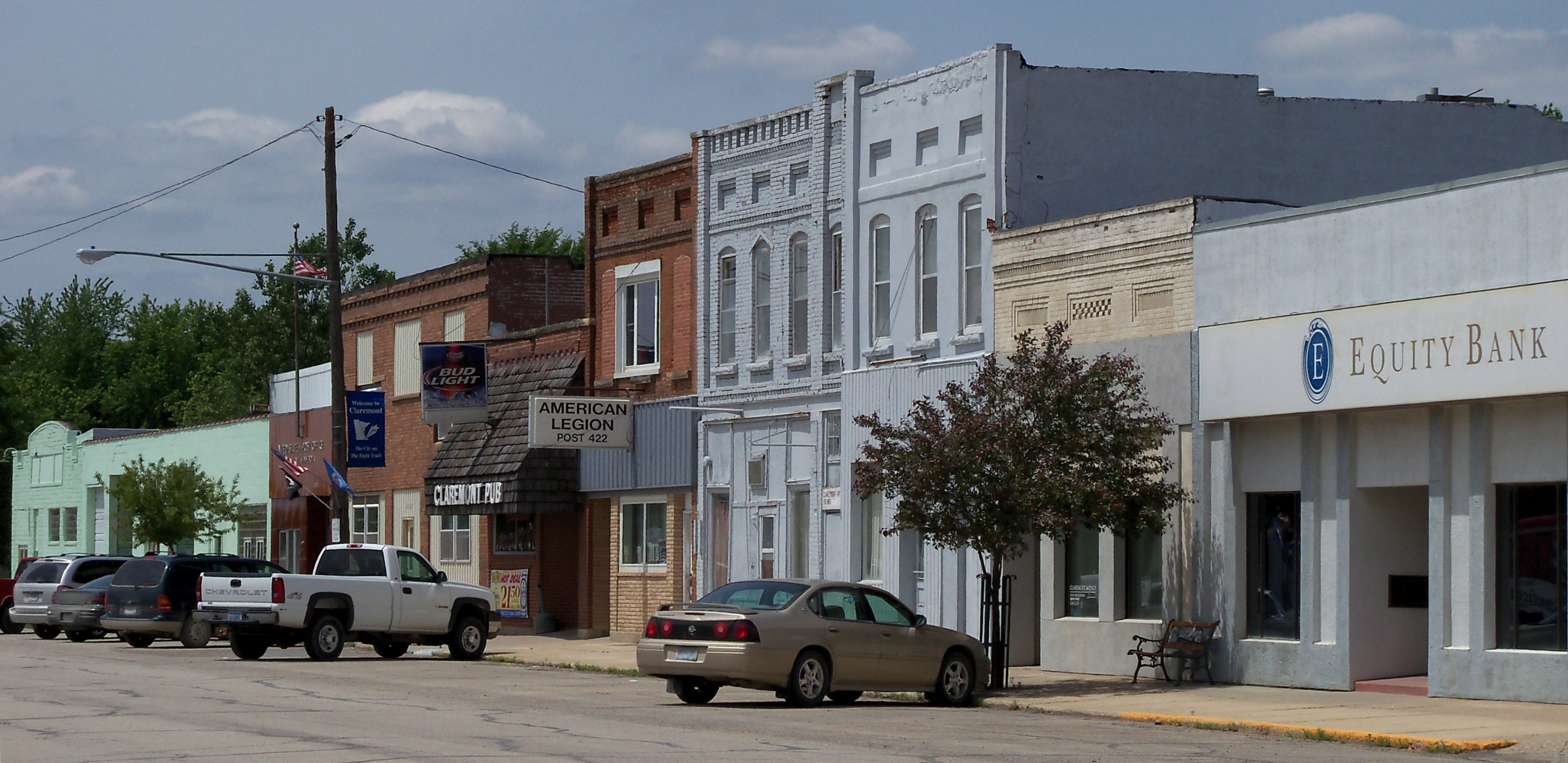 Main street in Claremont, Minnesota, USA.